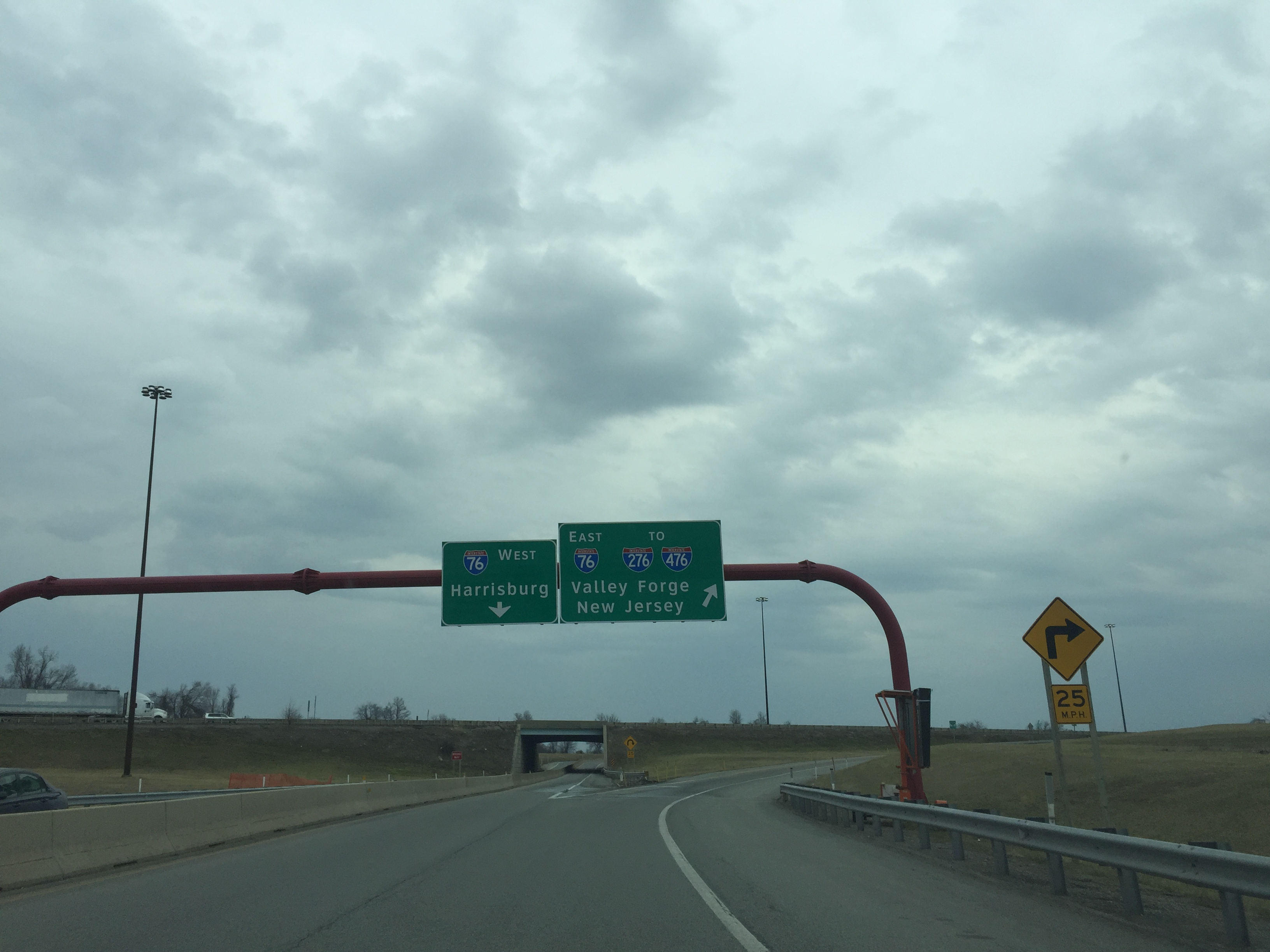 PA 100 exit 312